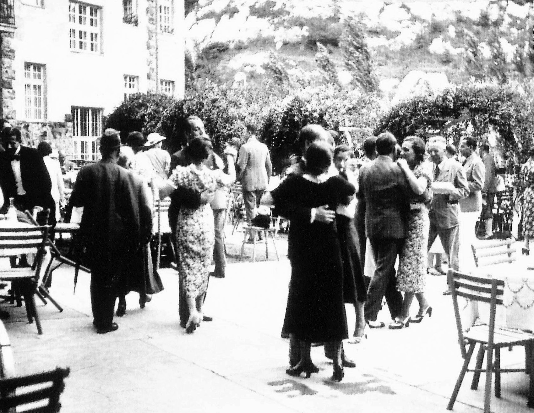 Afternoon tea in the terrace of Palace Hotel in 1936, Lillafüred, Hungary